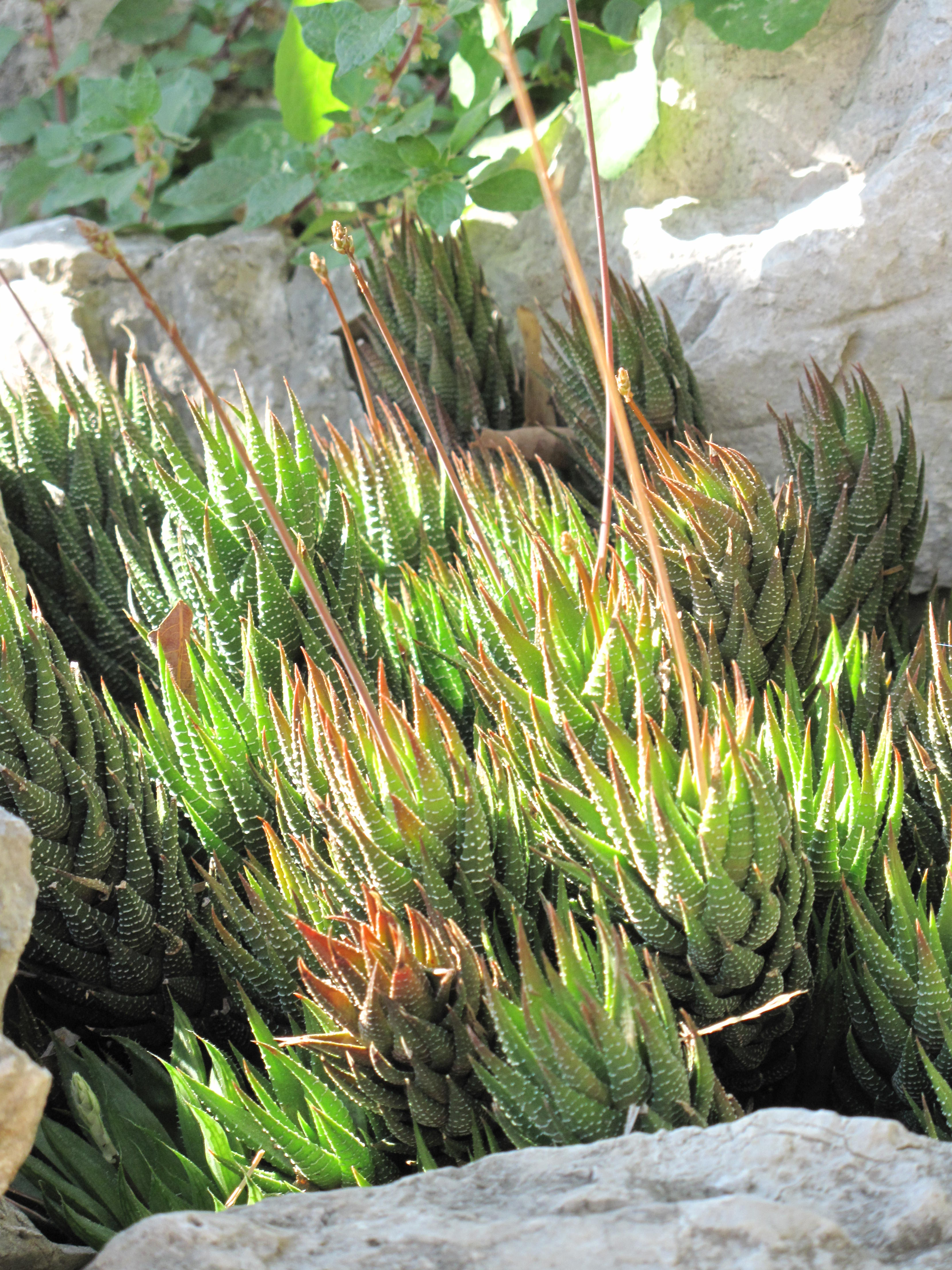 Haworthia fasciata variabilis in the exotic garden of Monaco. Identified by label.